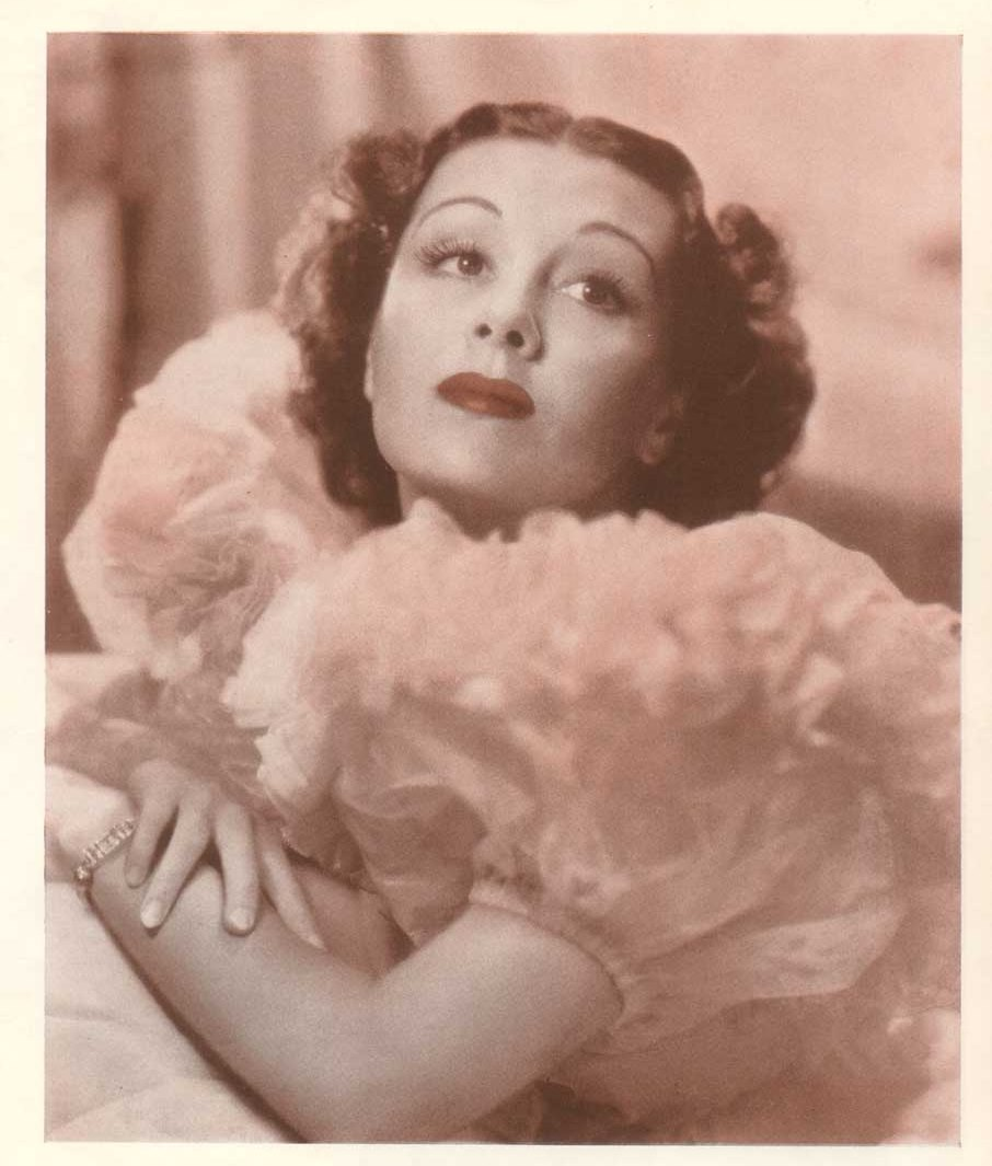 Publicity photo of Gladys Swarthout for Argentinean Magazine. (Printed in USA)